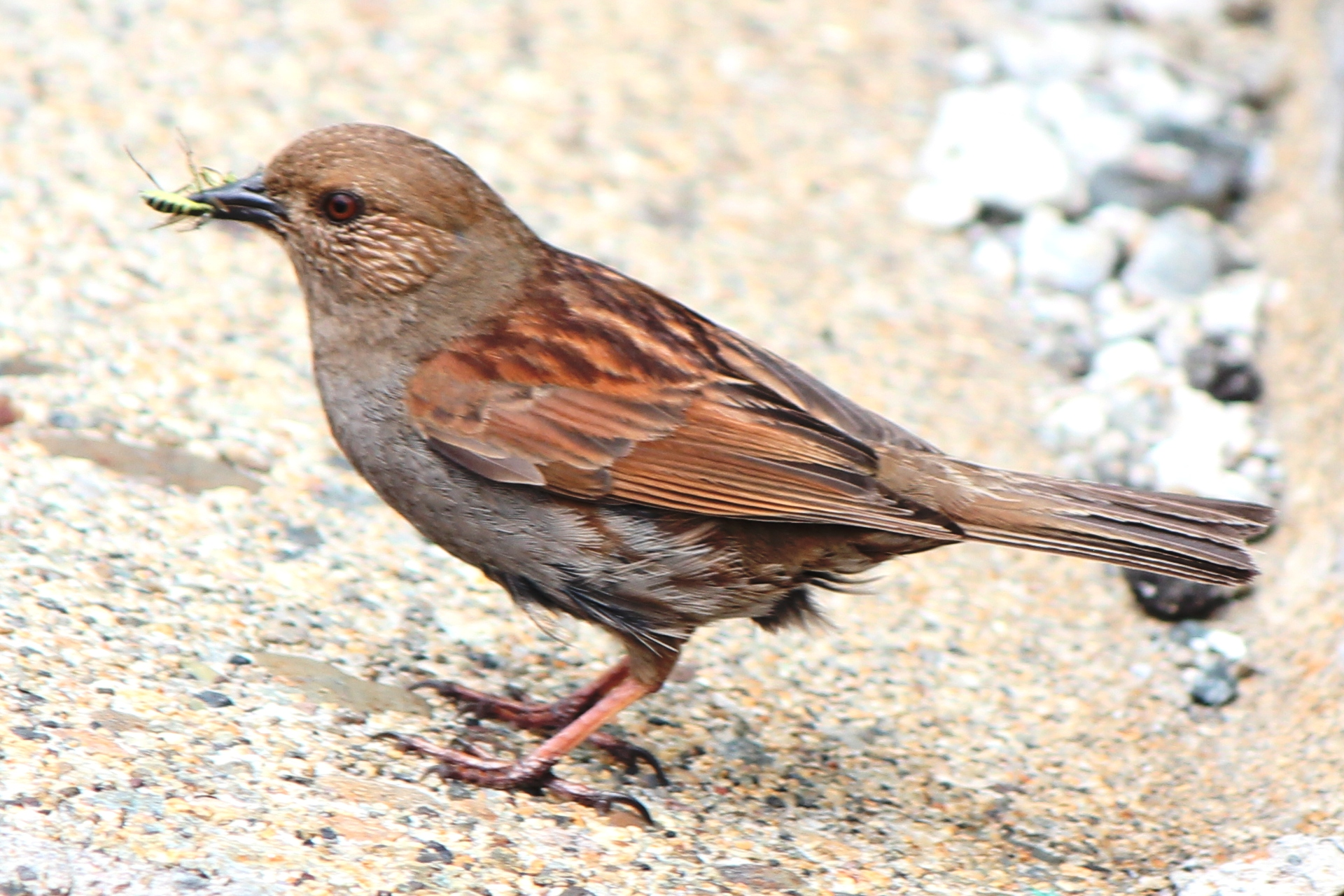 Prunella rubida (Japanese accentor) eating insect, in Mount Norikura, in Gifu pref., Japan.